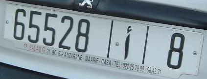 License plate of Morocco